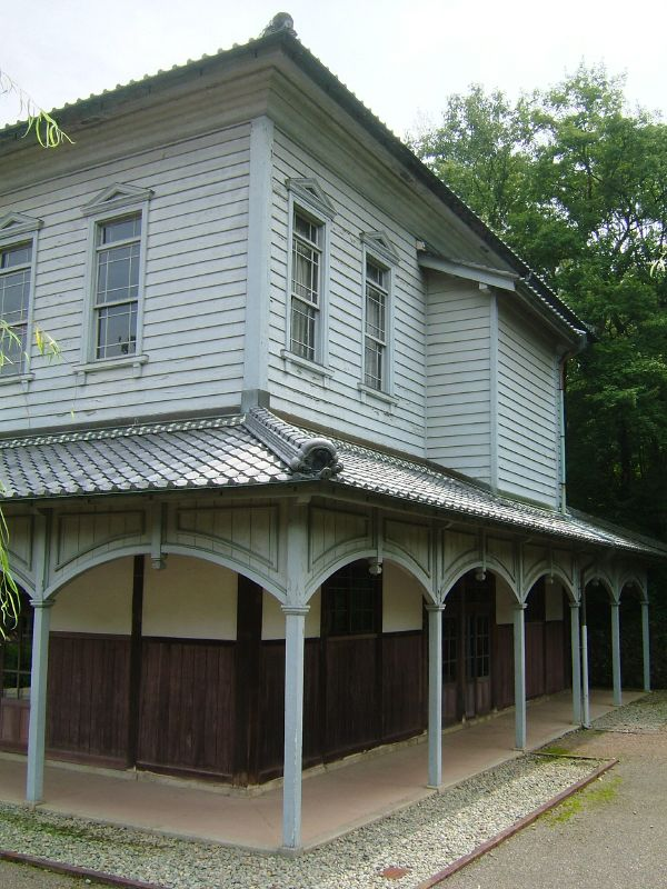 Originally from Osaka Built in 1897 From the Meiji Mura village museum, Japan.